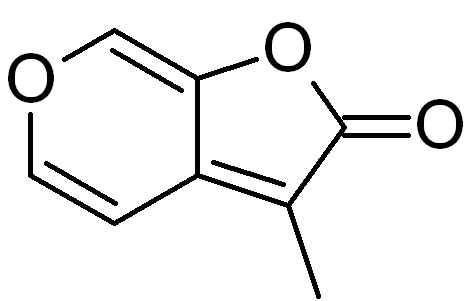 A butenolide found in smoke which promotes germination of seeds.